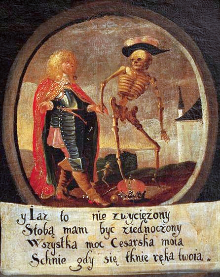 The Dance of Death - Emperor.